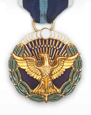 The Presidential Citizen's Medal